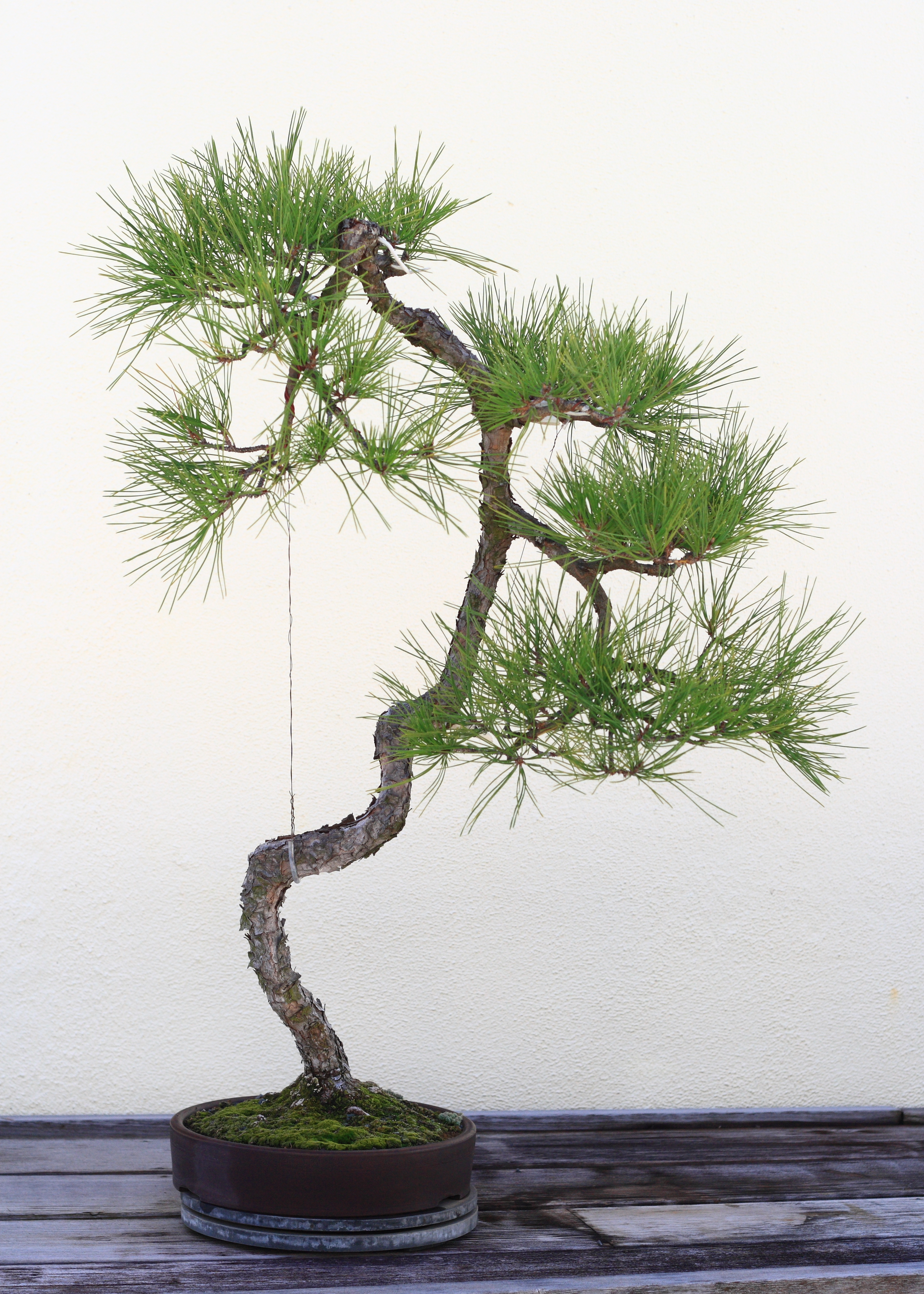 A Japanese Black Pine (Pinus thunbergii) bonsai, Chinese Collection 135, on display at the National Bonsai & Penjing Museum at the United States National Arboretum. According to the tree's display placard, the age of the tree is unknown. It was donated by Stanley Chinn.